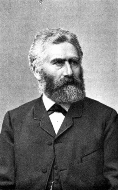 Portrait of Wilhelm Fuhrmann, mathematician